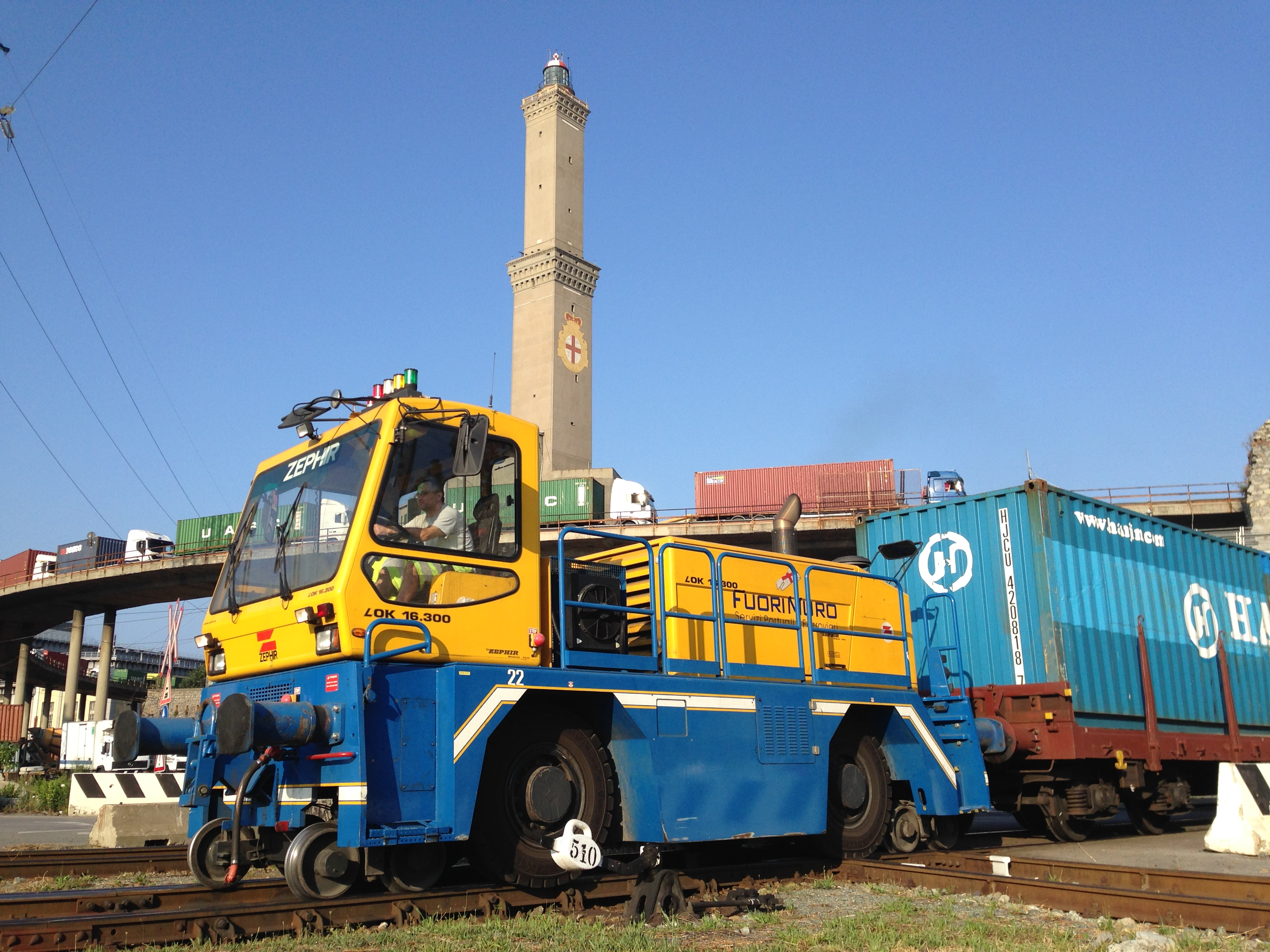 Uno dei mezzi FuoriMuro per la manovra ferroviaria nel porto di Genova.